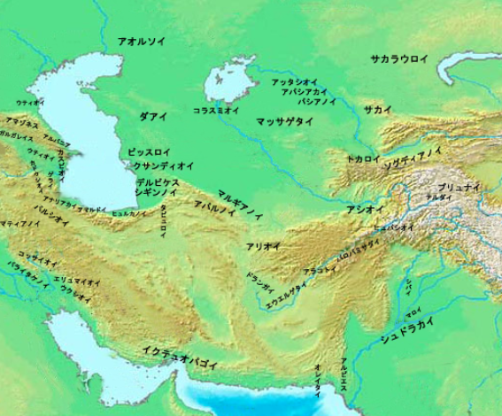 Various races of Central Asia in The 2nd century BC.